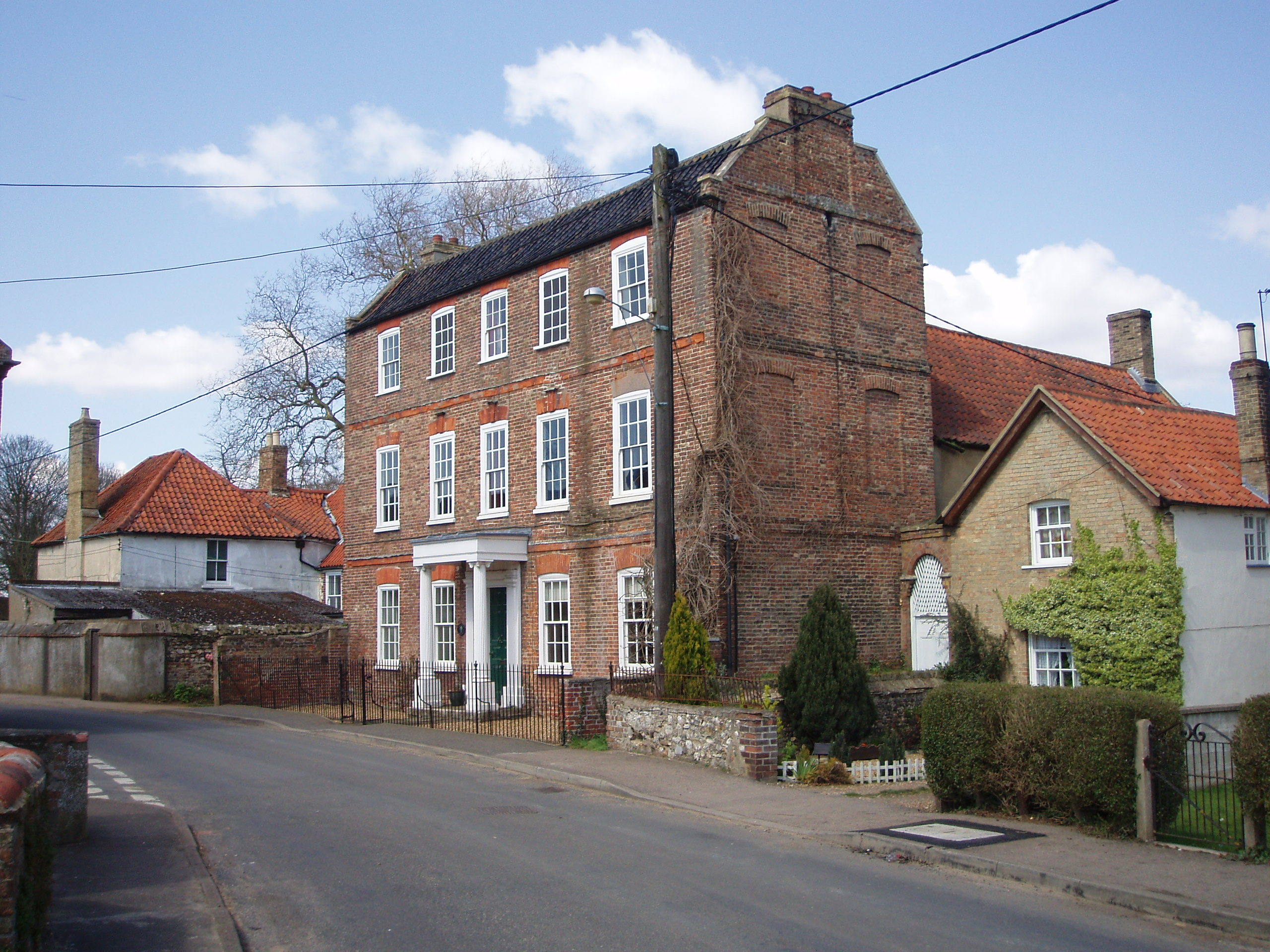 Provincial Georgian architecture, c. 1760. Northwold, Norfolk. My own picture